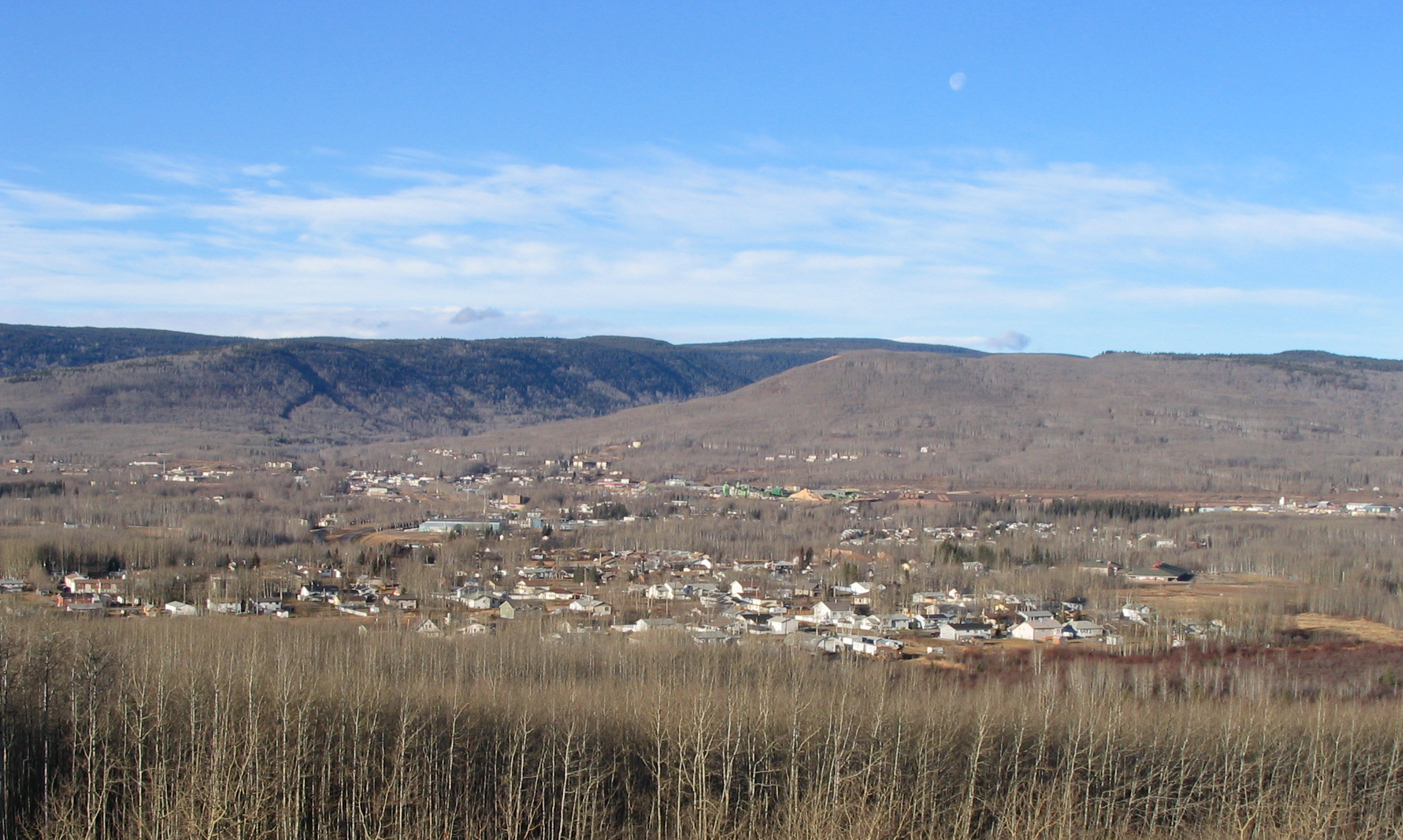 This photograph, taken in November 2005, shows the townsite of Chetwynd, British Columbia. The image is facing northwest towards Ol' Baldy Mountain, which is on the right. I, maclean25, took this photo while standing at a look-out point along B.C. provincial highway 97S, on Wabi Mountain.